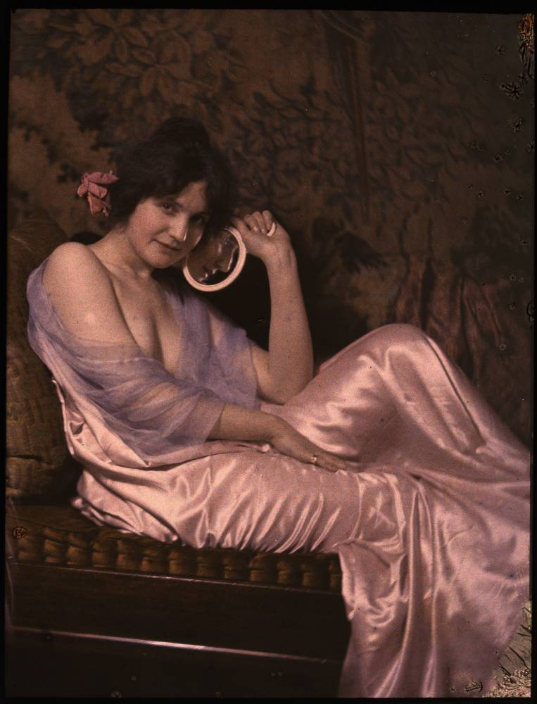 Accession Number: 1980:0437:0001 Maker: Unidentified Title: Woman in satin dress holding mirror Date: ca. 1915 Medium: color plate, screen (Autochrome) process Dimensions: Image: 10.6 x 8.1 cm Overall: 12.8 x 9 cm George Eastman House Collection General information about the George Eastman House Photography Collection is available at [1]. For information on obtaining reproductions go to